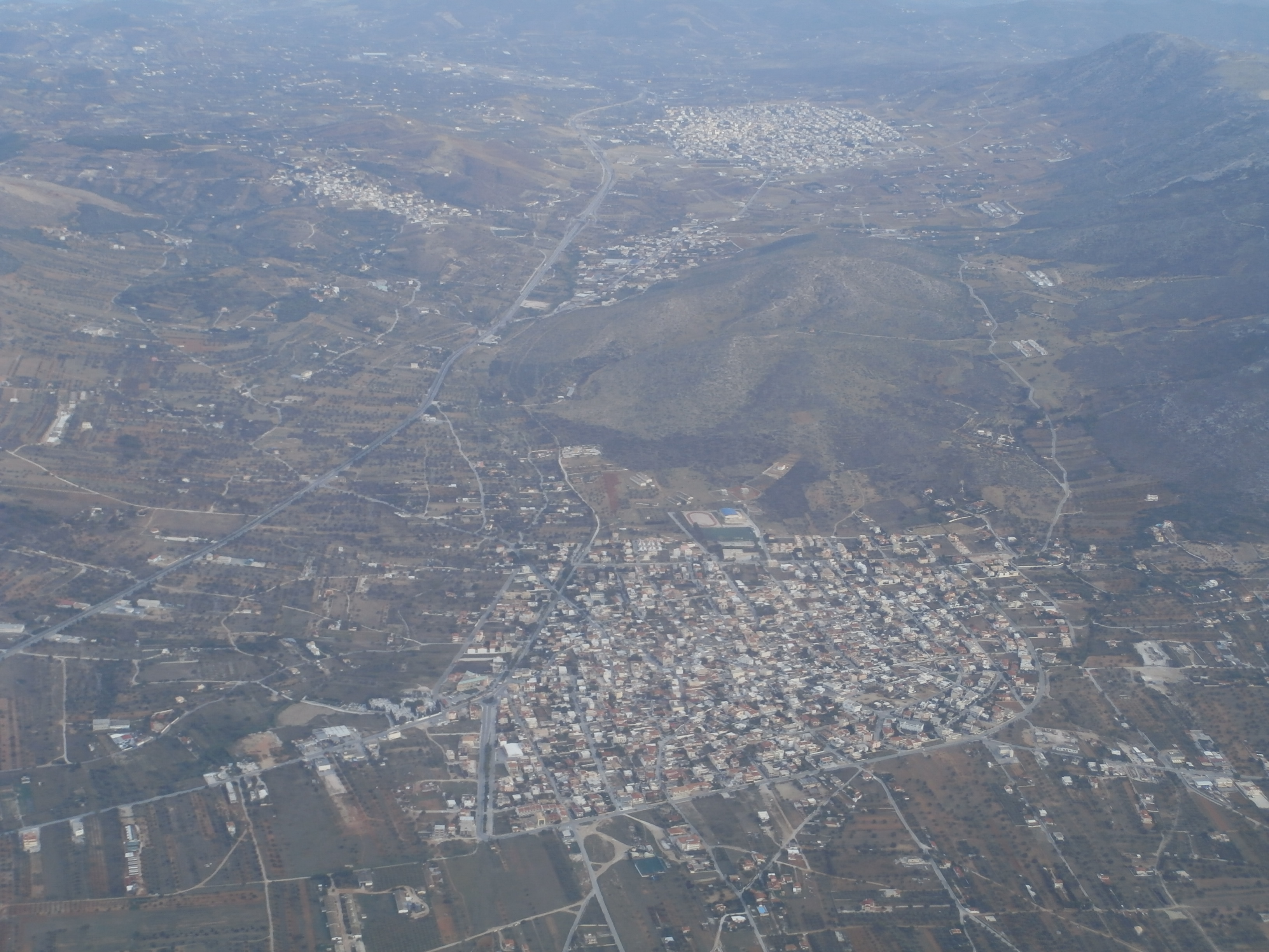 The towns Kalivia Thorikou, Kouvaras and Keratea as seen from airplane from NW.